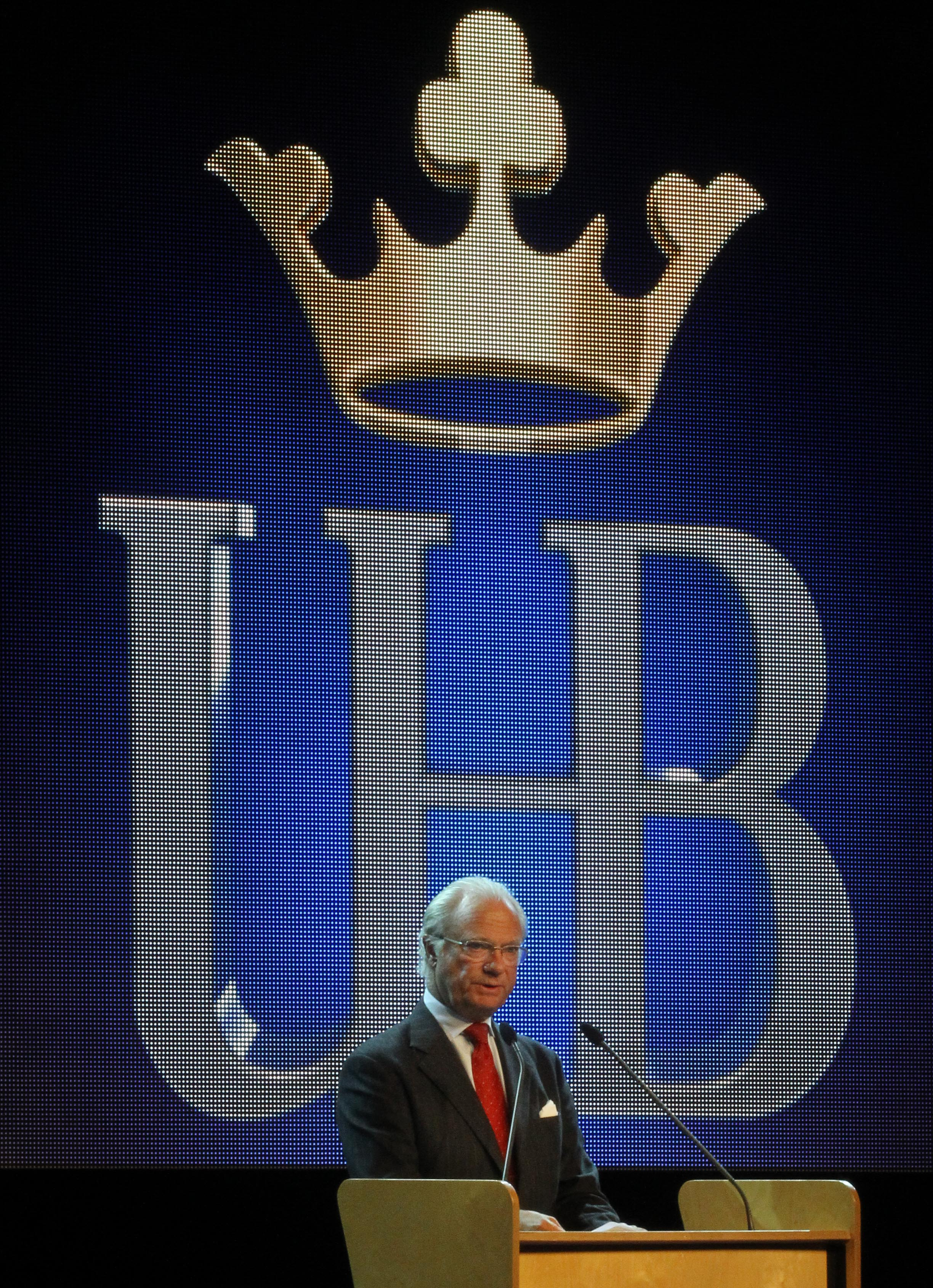 King Carl XVI Gustaf of Sweden inaugerates the forging press of Uddeholms AB, Hagfors, Sweden, 8 September 2010.